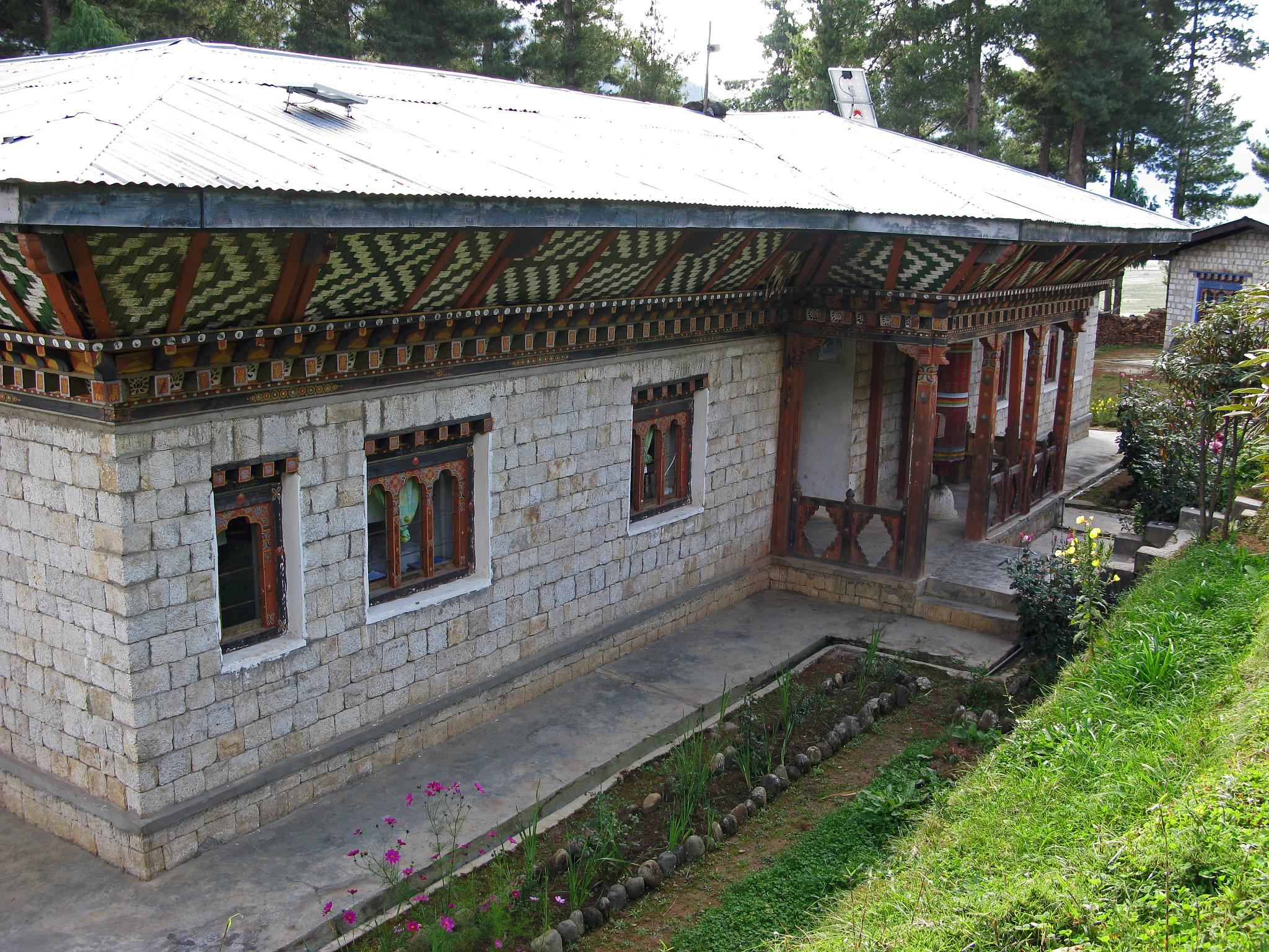 Basic Health Unit Phobjikha ""Basic Health Units" provide basic primary care preventive and acute care services. They also do outreach and track public health statistics. Staffed by 3 health assistants (2 post-high school years of training) and one tranditional/herbal practitioner."